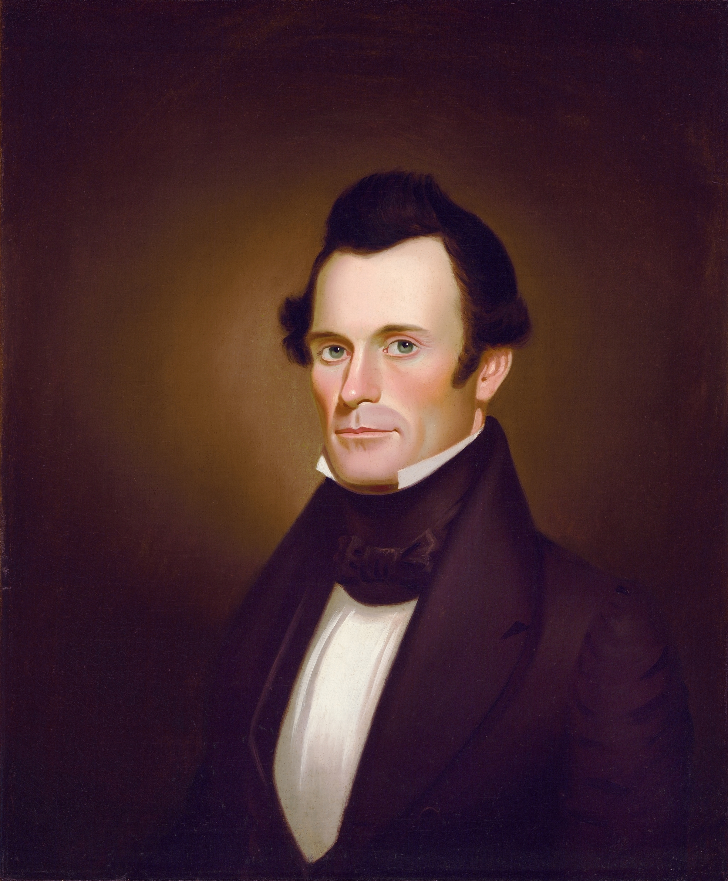 Portrait of Judge Priestly Harvey McBride painted by George Caleb Bingham, circa 1837